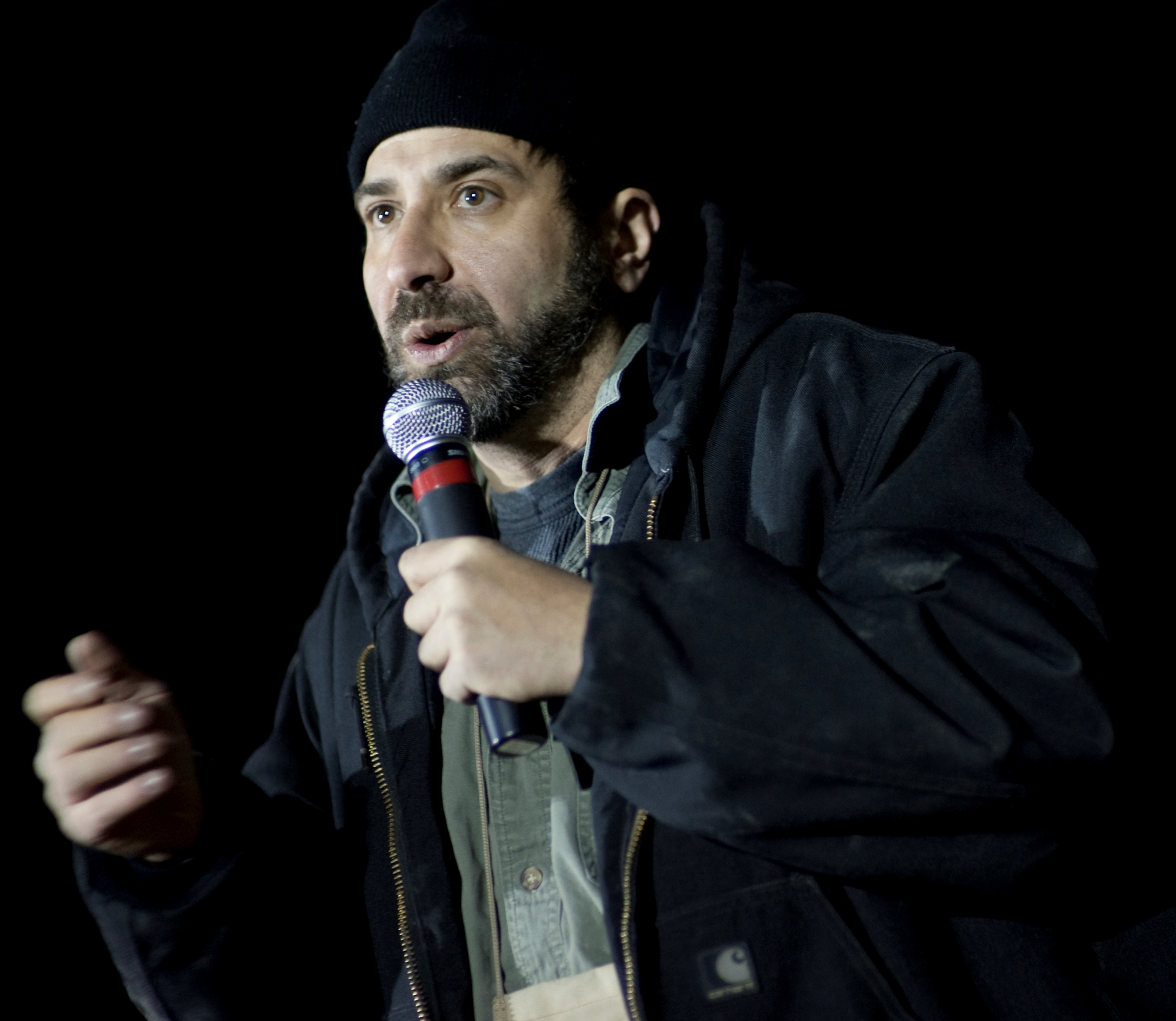 Comedian Dave Attell performs at the 2009 USO Holiday Tour stop in Kandahar, Afghanistan, Dec. 17, 2009. Navy Adm. Mike Mullen, chairman of the Joint Chiefs of Staff and his wife Deborah welcomed tennis star Anna Kournikova, tennis coach Nicholas Bollettiere and musician Billy Ray Cyrus on the tour visiting troops in Afghanistan, Iraq and Germany. (DoD photo by Mass Communication Specialist 1st Class Chad J. McNeeley/Released)